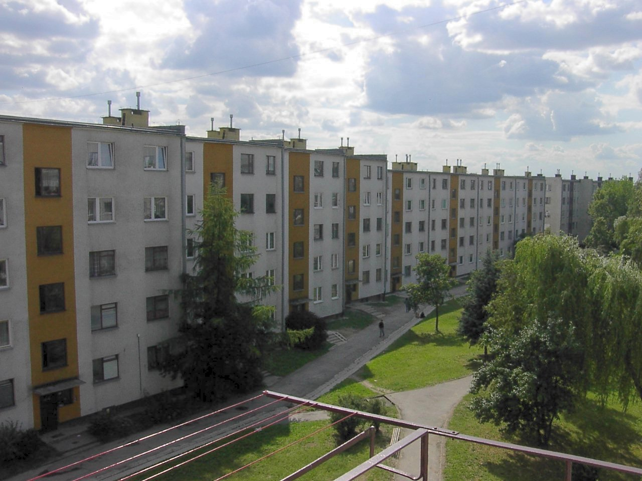 Kielce - Bocianek district, Poland, 2006 yr. Autor/Author: Grzegorz Pietrzak (user VindicatoR) Data/Date: 03.07.2003 (dd-mm-yyyy) Aparat/Camera: Premier DC-2350